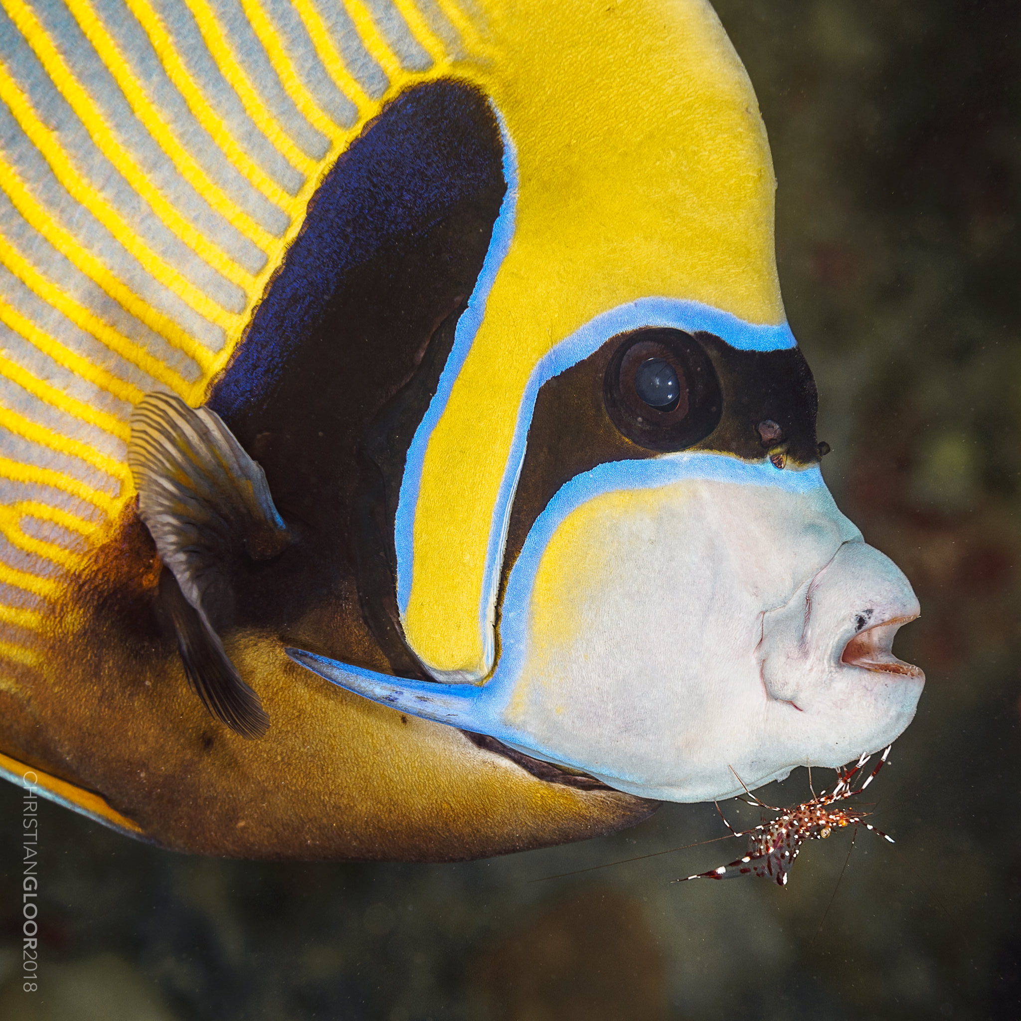 This Emperor angelfish (Pomacanthus imperator) was enjoying its time at the SPA. A good cleanup by this cave cleaner shrimp (Urocaridella sp. 2) seemed to give it all the pleasue it could get. I captured it just as the shrimp was climbing on its face and looks like a tiny mountaineer reaching the summit of a snow capped mountain.